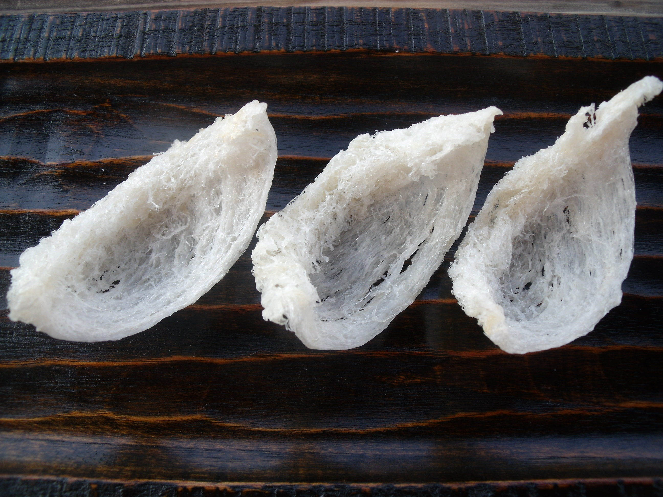 edible birds nest